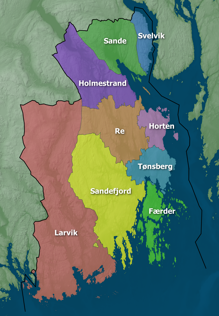 Municipalities of Vestfold, Norway. Valid from 1/1 2018.